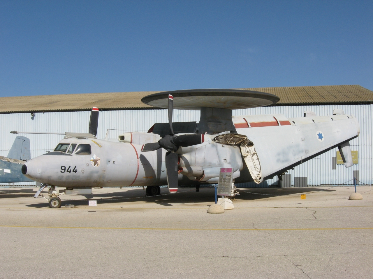 Grumman E-2C Hawkeye at the Israeli Air Force Museum in Hatzerim